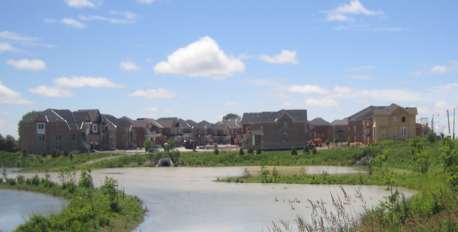 New construction in urban Stouffville, June 2010 (Mantle Avenue and York-Durham Line, looking toward Greenbury Ct.); site of 16th Century Huron Village ("Mantle Site").[1]